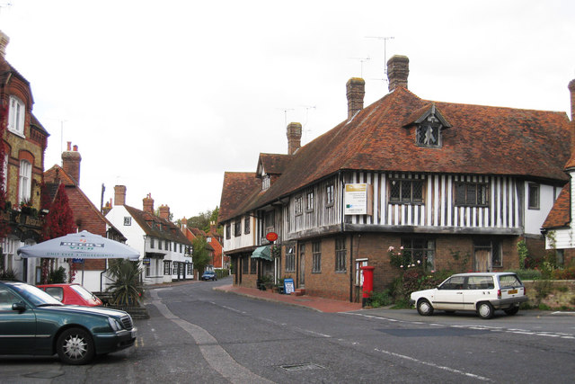 The Old Palace, High Street, Brenchley, Kent Grade II* listed Keywords: wealden, hall house, timber framed, half timbered, mediaeval, tudor, house, listed, hipped, jettied